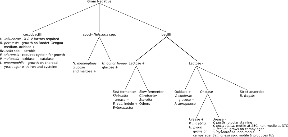 Lab algorithm to determine the bacteria in question for gram negative bacteria.